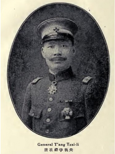 Tang Zaili (1880-1964)